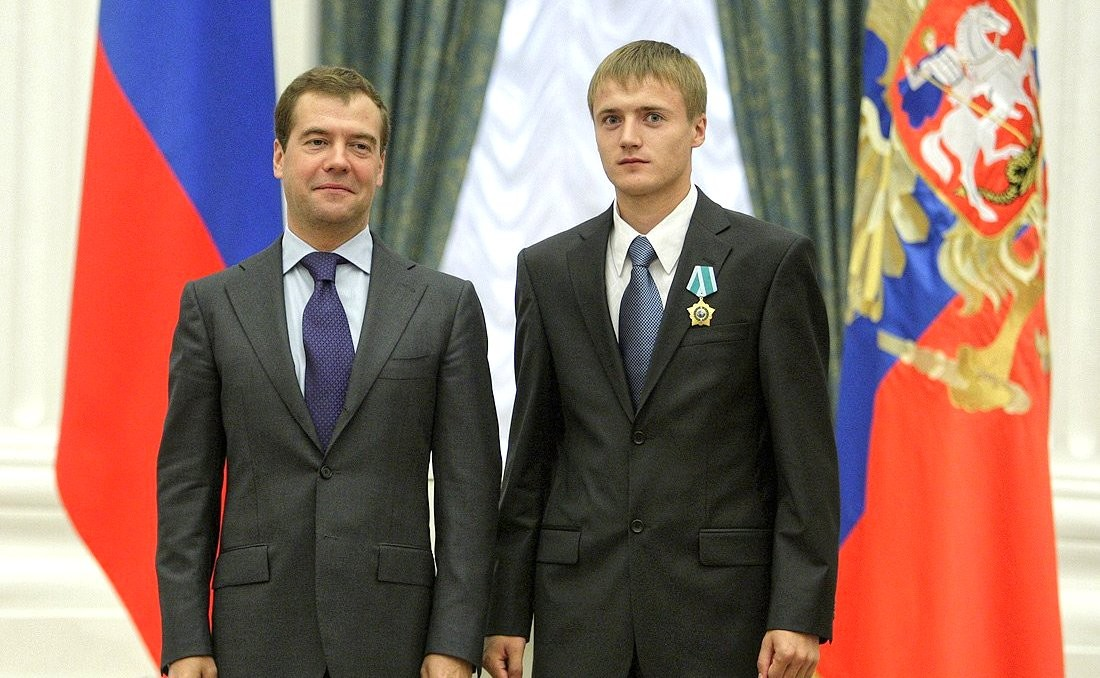 Waleri Bortschin in Kremlin